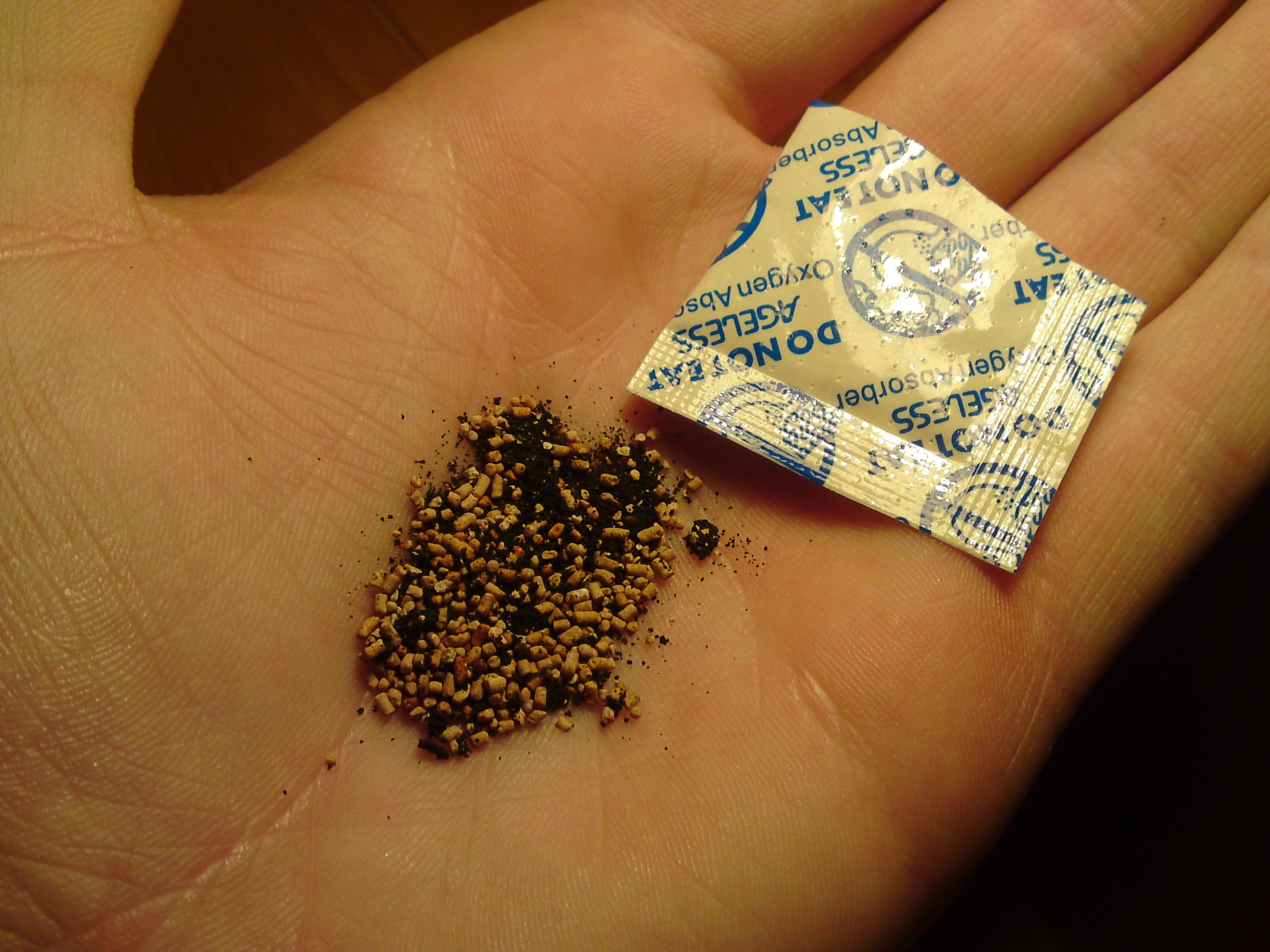 Contents to an Ageless oxygen absorber (made by Mitsubishi Gas Chemical) contained within a packet of Beef Jerky.